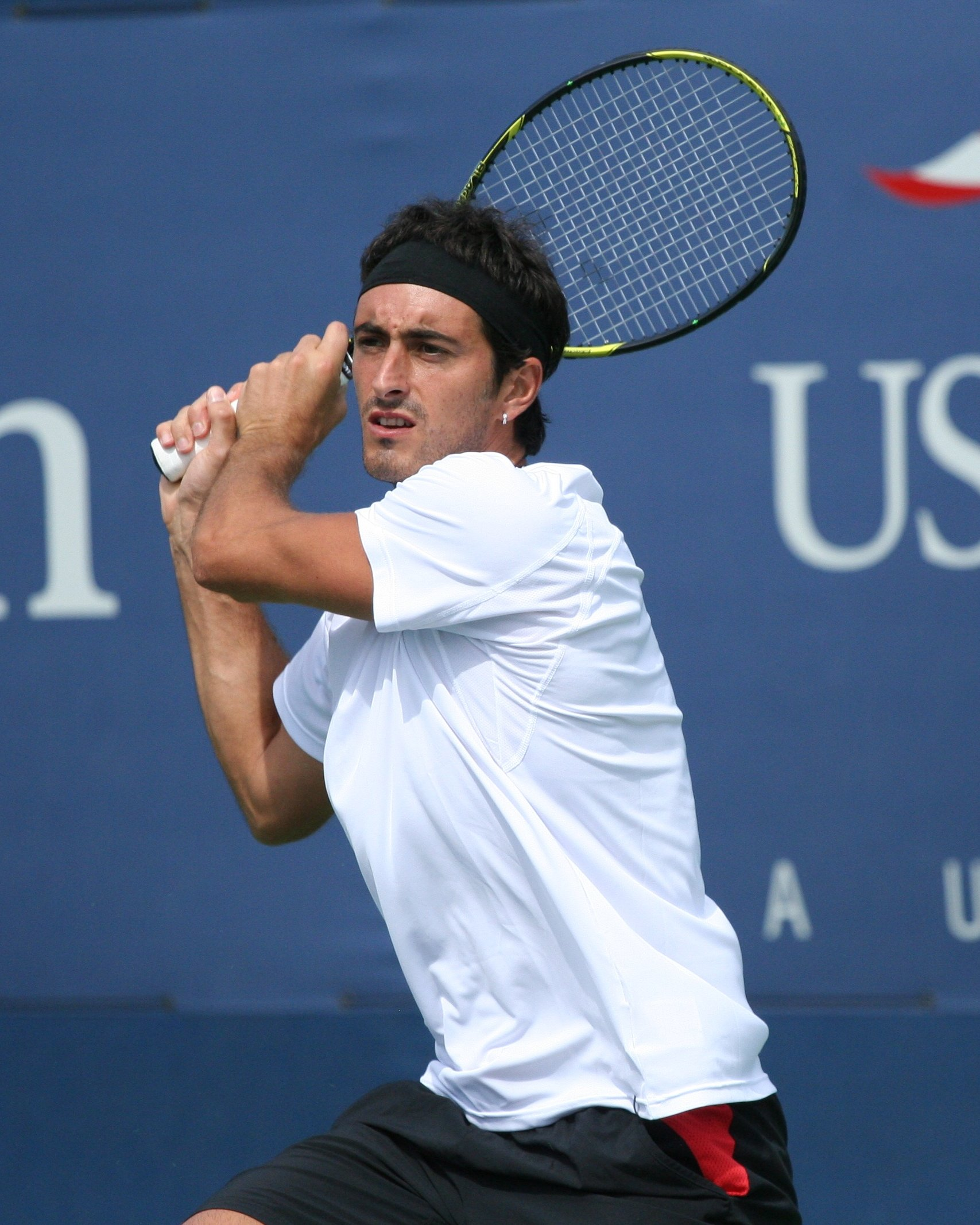 U.S. Open Thursday, Sept. 3, 2009